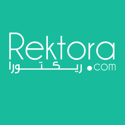 rektora logo